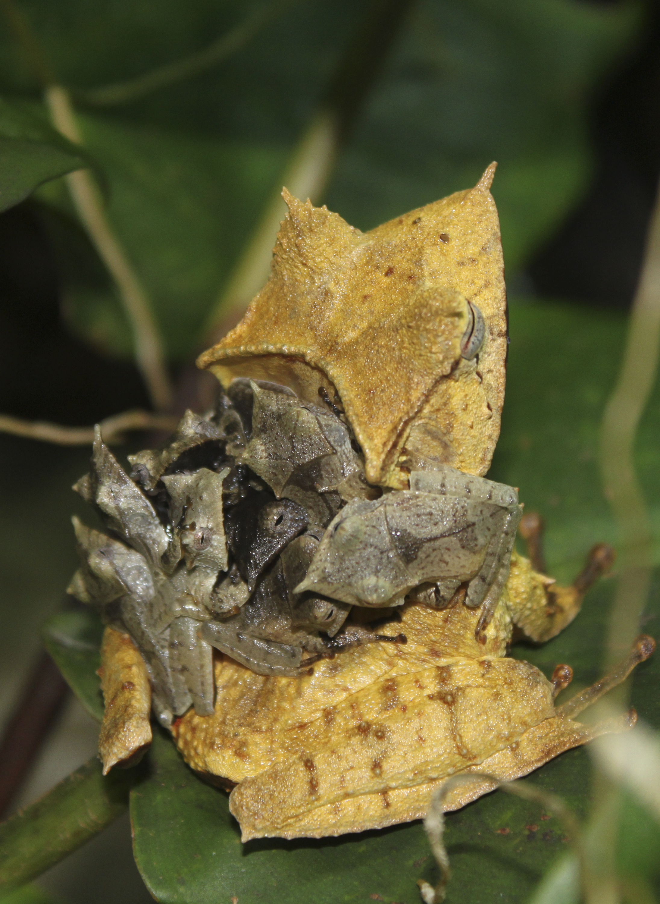 Hemiphractus fasciatus with babies at EVACC